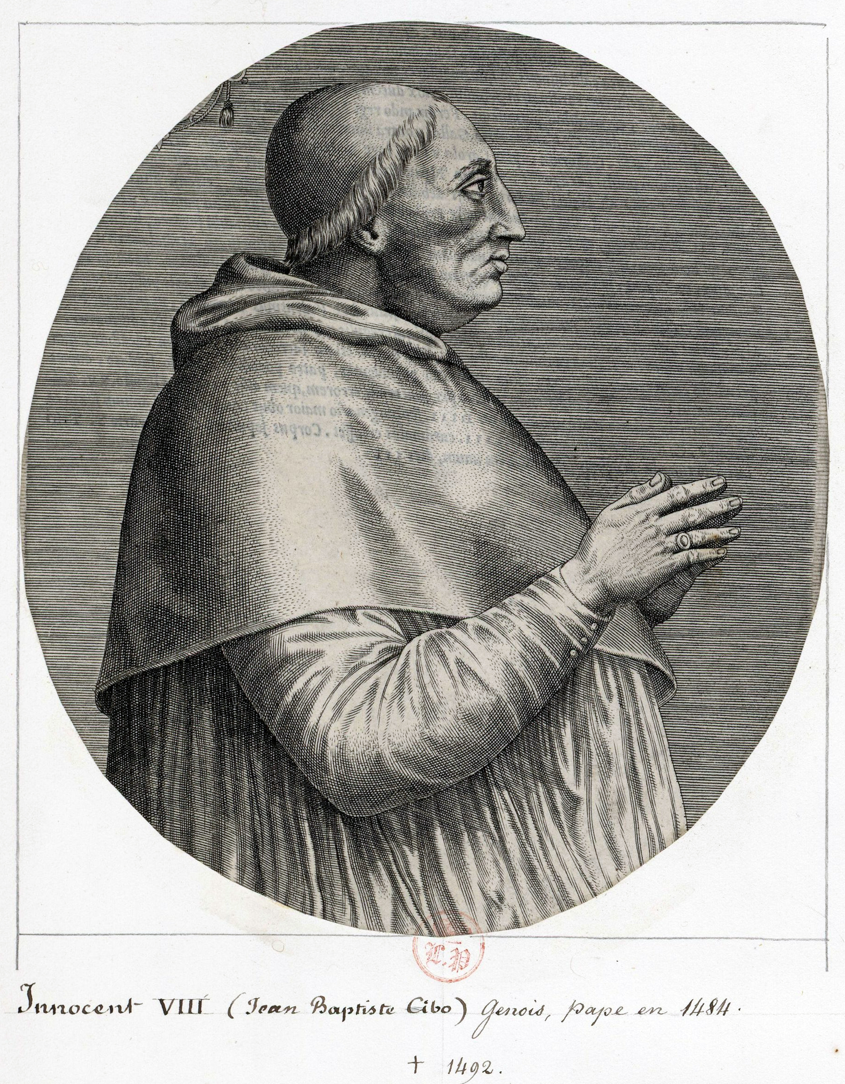 Pope Innocent VIII (Giovanni Battista Cybo (or Cibo)(1432 – July 25, 1492) Pope from 1484-1492